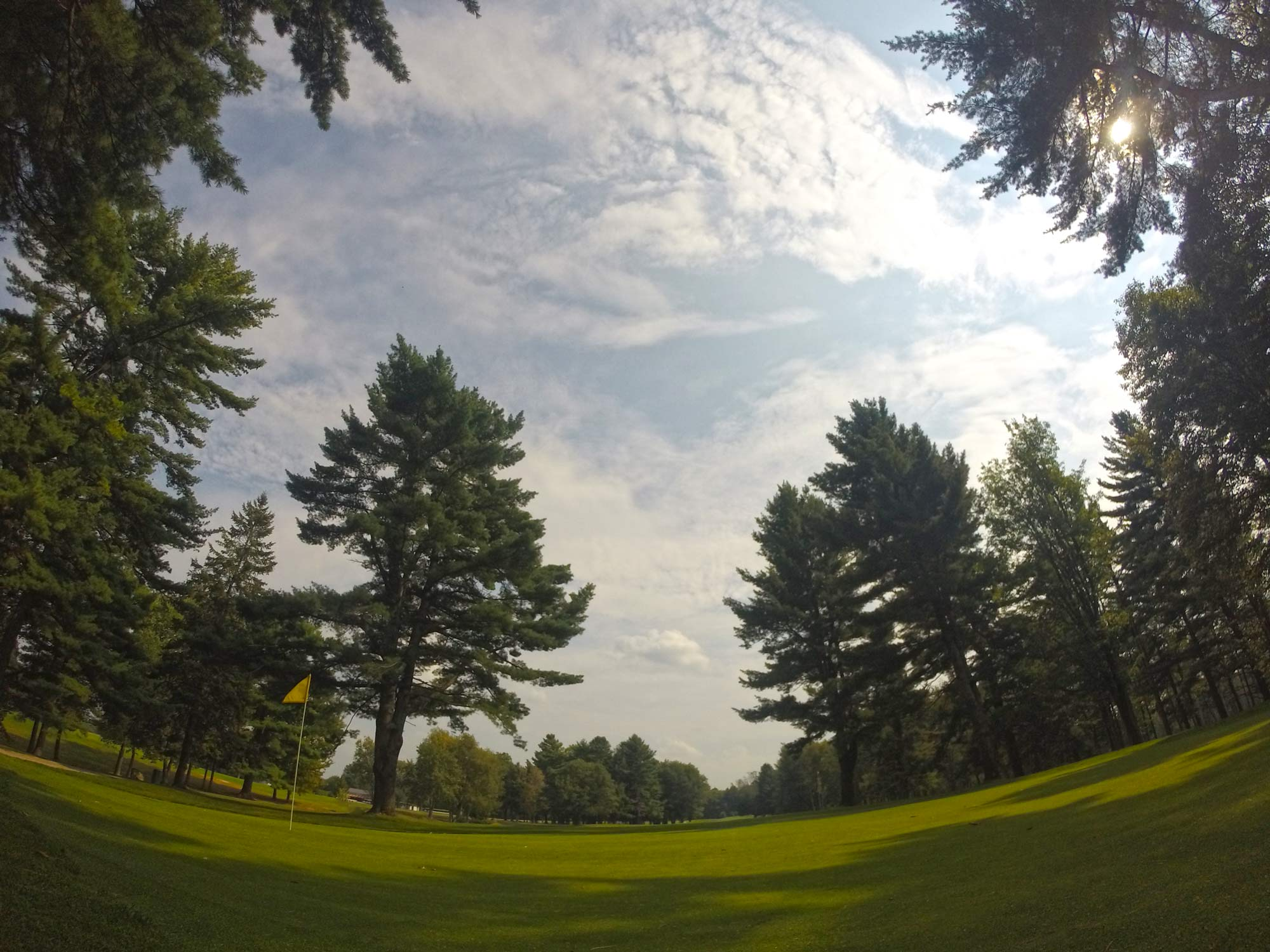 The 4th hole on the north course features massive pine trees.